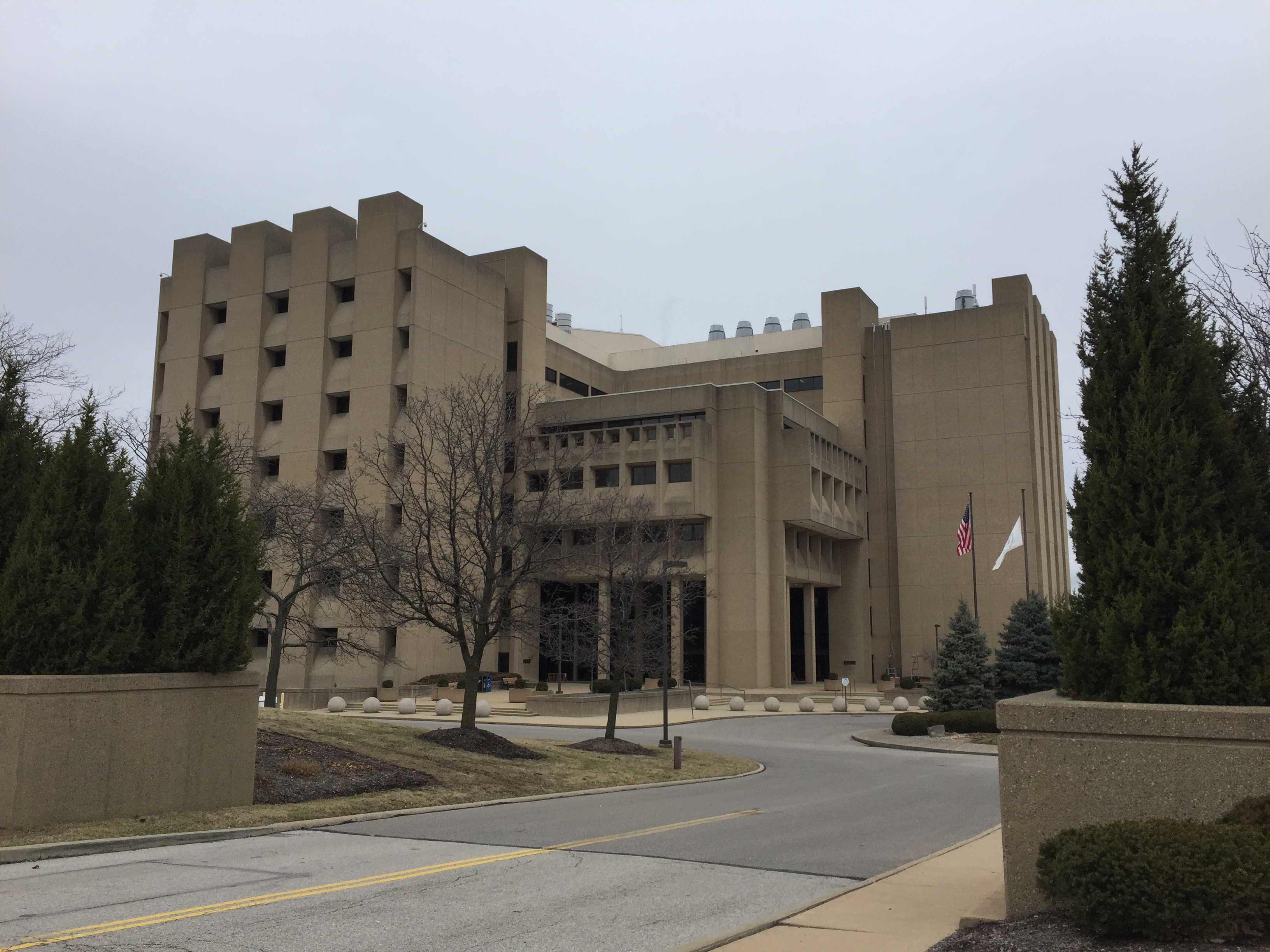 United States Environmental Protection Agency| Andrew W. Breidenbach Environmental Research Center in Cincinnati in 2019